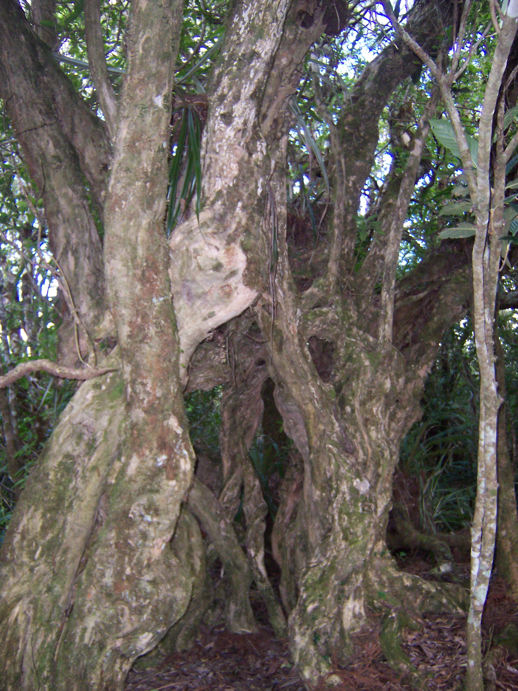 Trunk of Nuxia verticillata